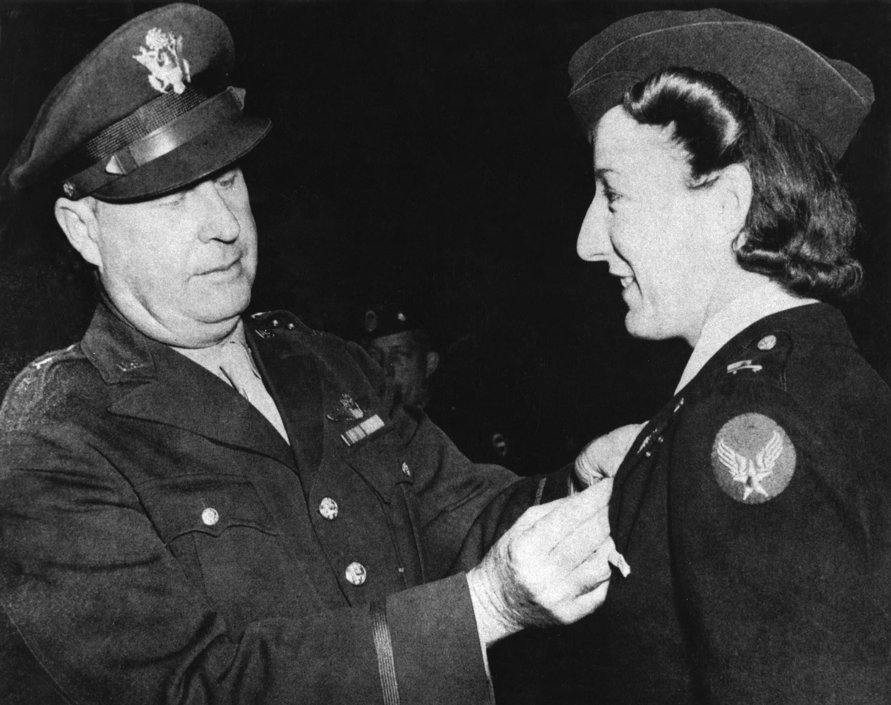 Brig. Gen. Fred Borum presents the Air Medal to Lt. Elsie Ott, who was the first woman to receive the Air Medal. (U.S. Air Force photo) Note: General Borum presented the Air Medal to Lt. Elsie Ott, the first woman to receive the honor, following the first intercontinental air evacuation flight in January 1943 during which Lt. Ott served as a flight nurse (Air evacuations helped to advance medical care). The ceremony was held in 1943 at Bowman Field, KY, where the School of Air Evacuation was establishee in November 1942. The National Museum of the USAF